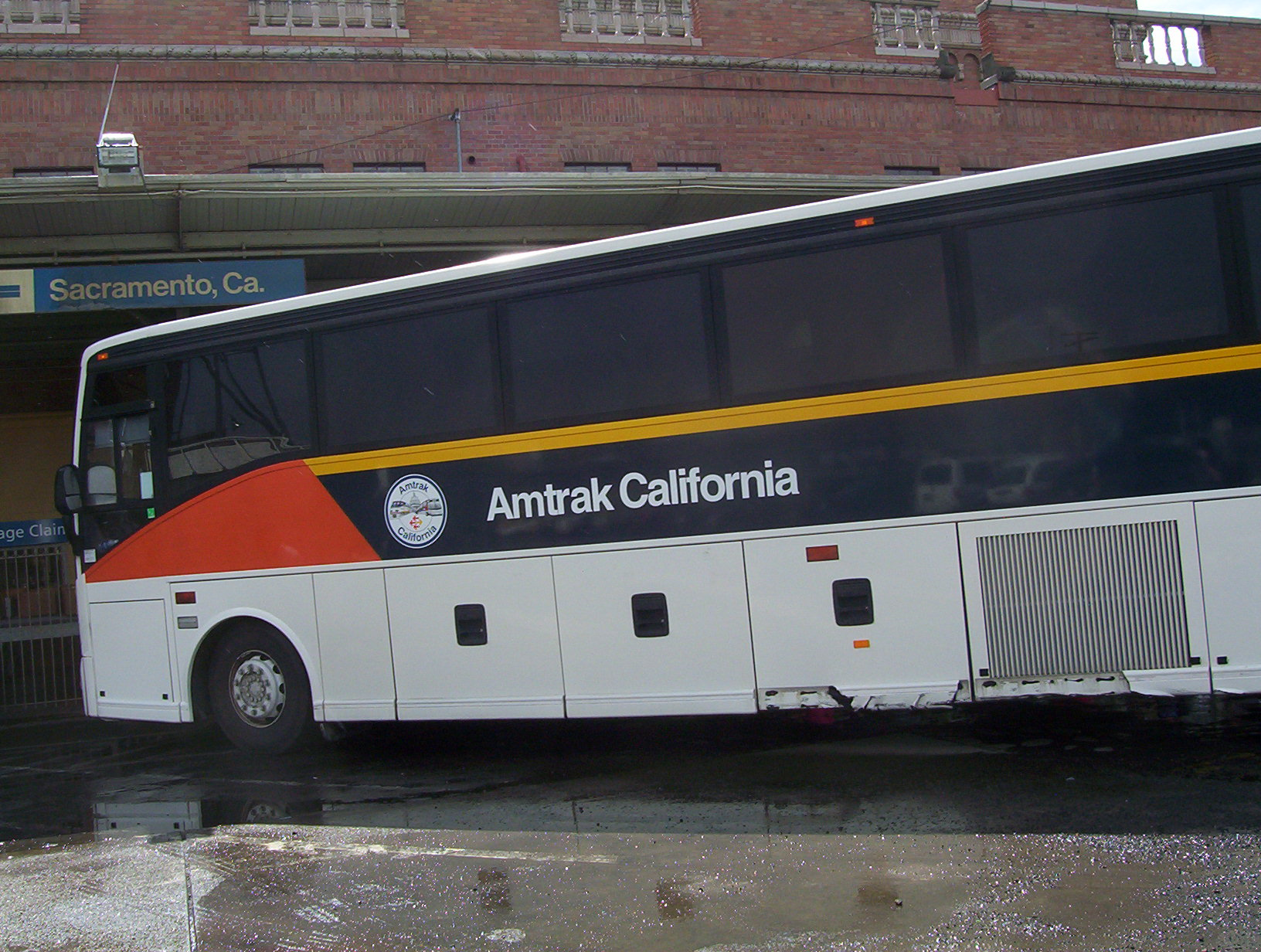 Change file name so train image in Commons can be used.